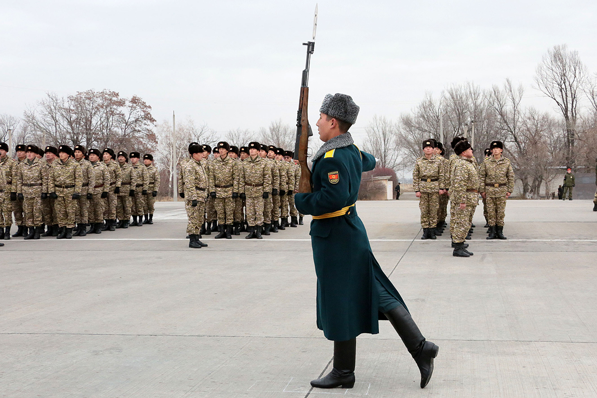 In Kyrgyzstan, Su-25 aircraft was named after Hero of the Soviet Union Ismailbek Taranchiev.